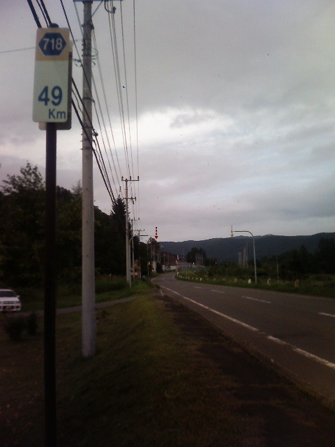 Hokkaido prefectural road route718, Iwamatsu, Shintoku, Hokkaido, Japan